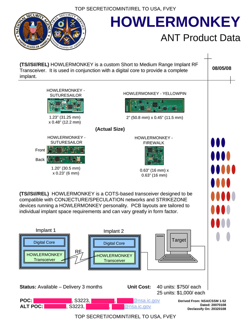 HOWLERMONKEY - Radio signals receiver